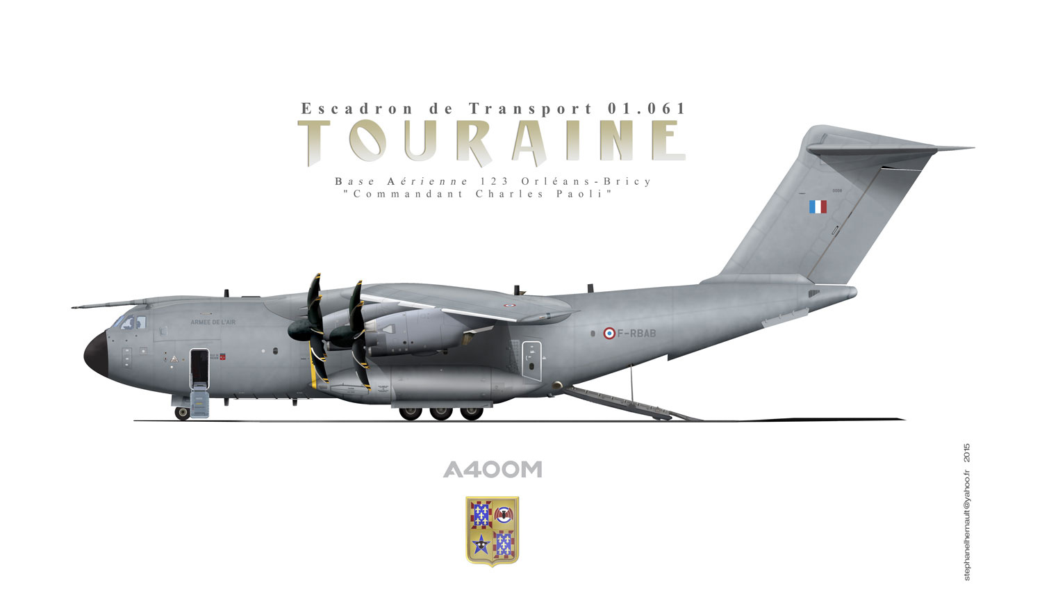 Airbus A400M French air force